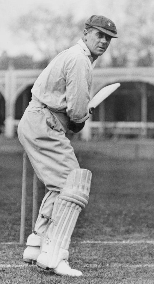 Australian cricketer Warren Bardsley practising at Lord's cricket ground in London, circa May 1926. Warren Bardsley was 43 years old when he made his last Test tour of England, in 1926